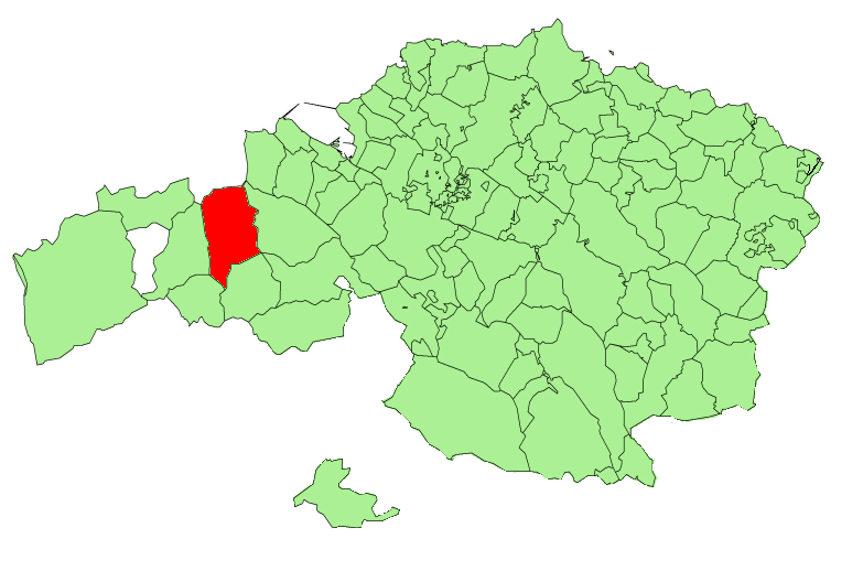 Sopuerta municipality in the province of Biscay